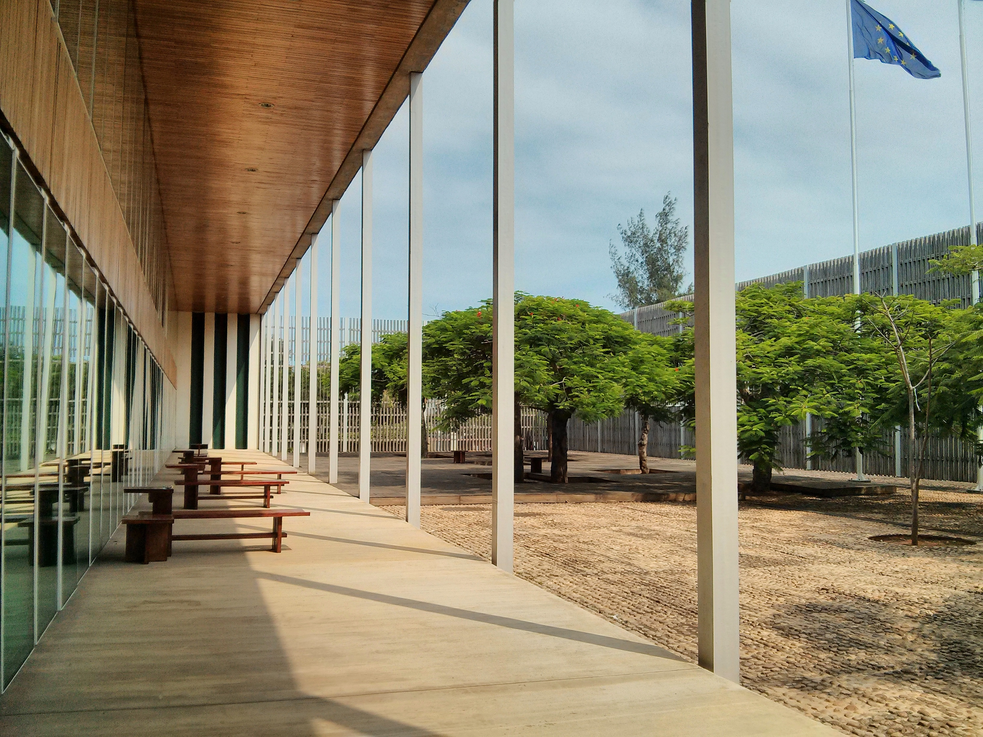 Embassy of the Netherlands in Maputo, Mozambique